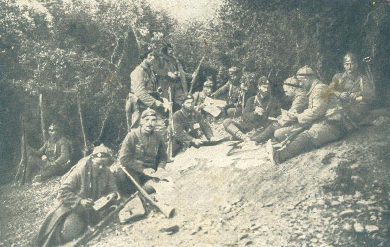 Datachment of IMRO leader Todor Aleksandrov